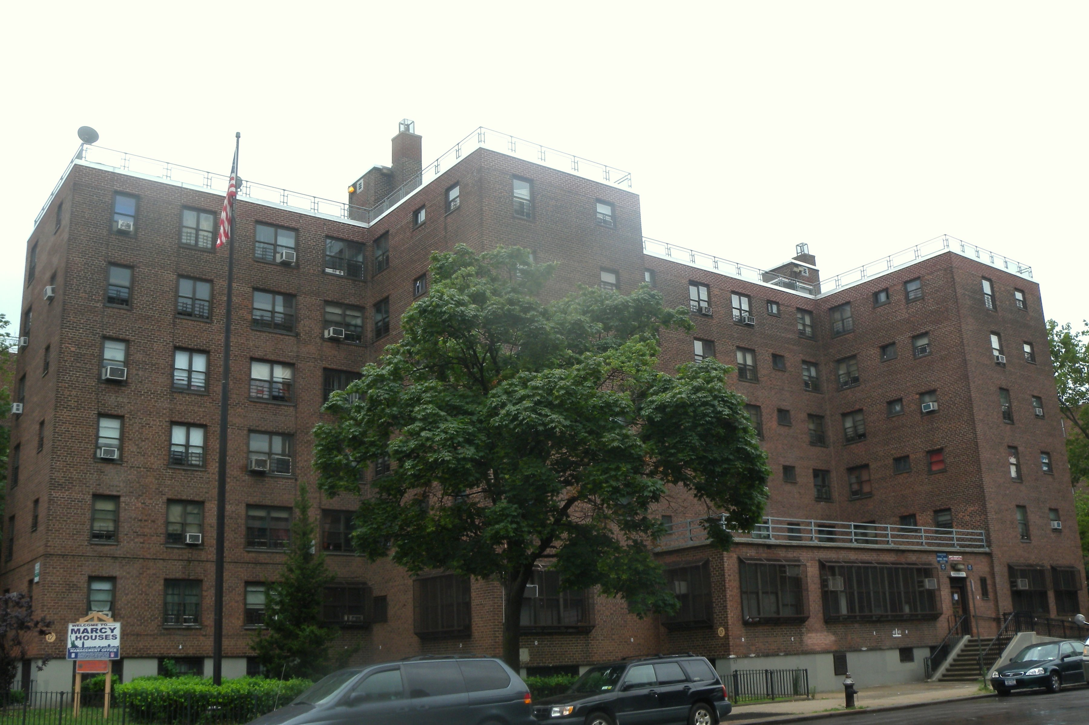 Looking southwest from Marcy Avenue and across Park, at Marcy Houses on a rainy day.